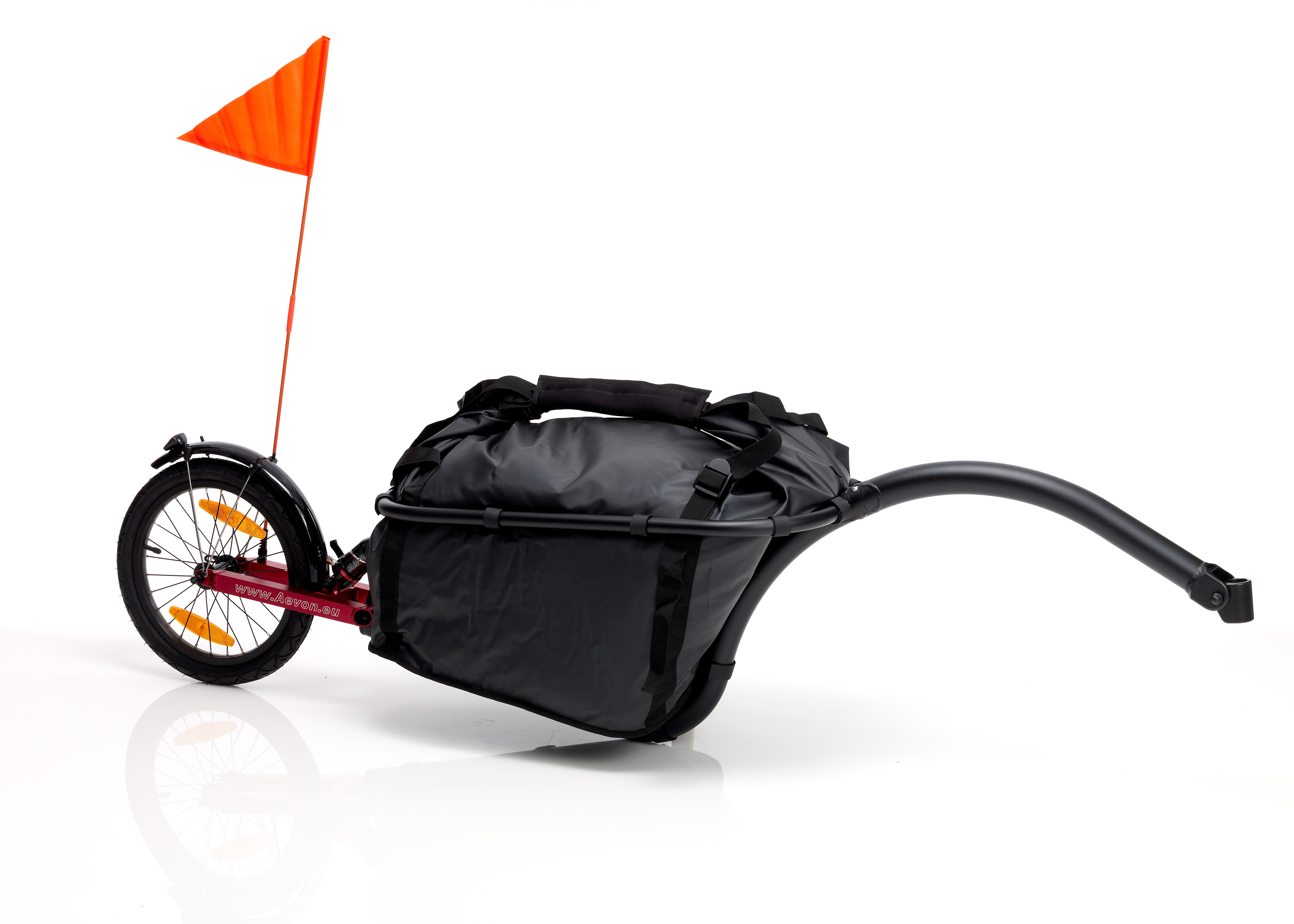 Aevon foldable bicycle trailer KIT L80